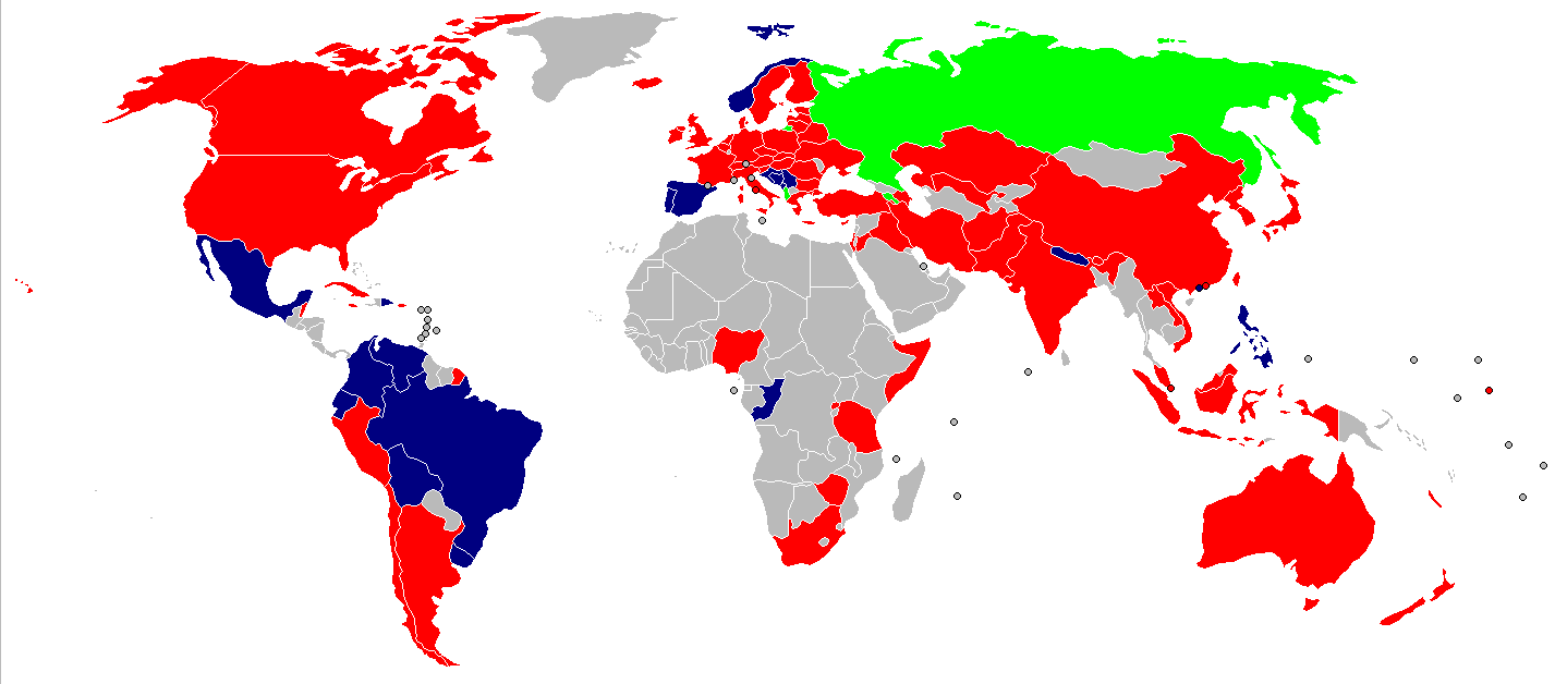 Life imprisonment